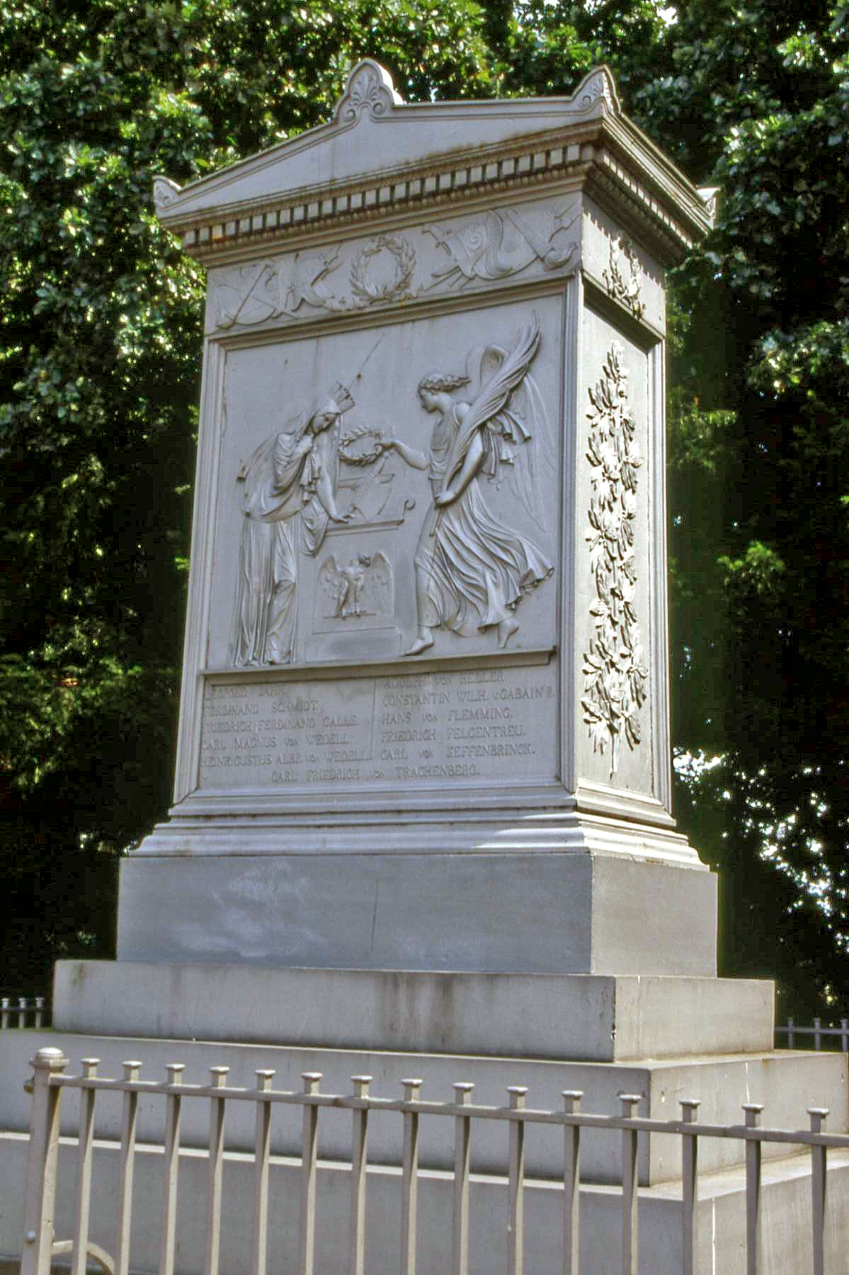 Monument to the eleven officers in Schill's Freikorps who were executed by firing squad in Wesel.